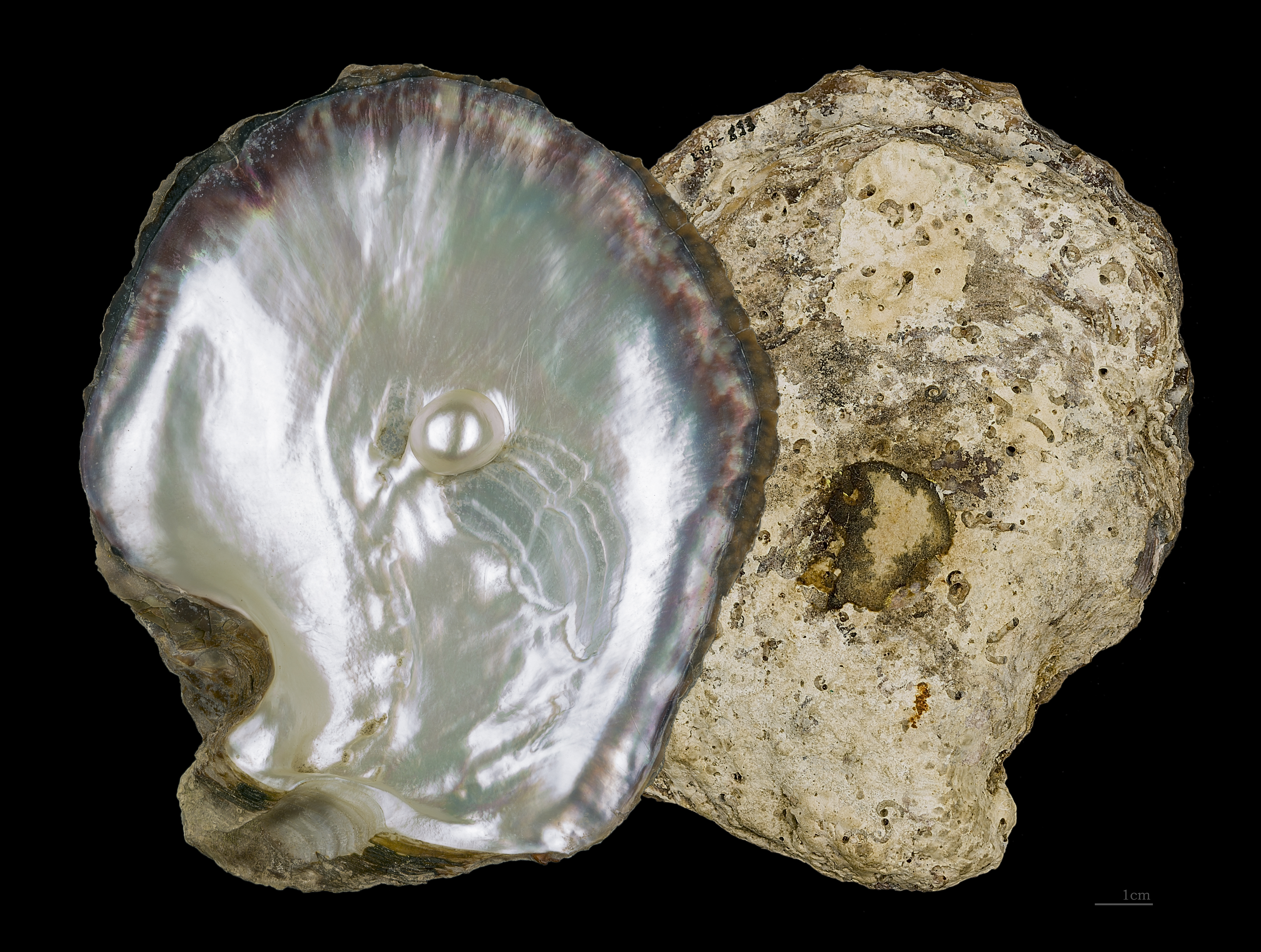 Pinctada margaritifera - Two views of same specimen